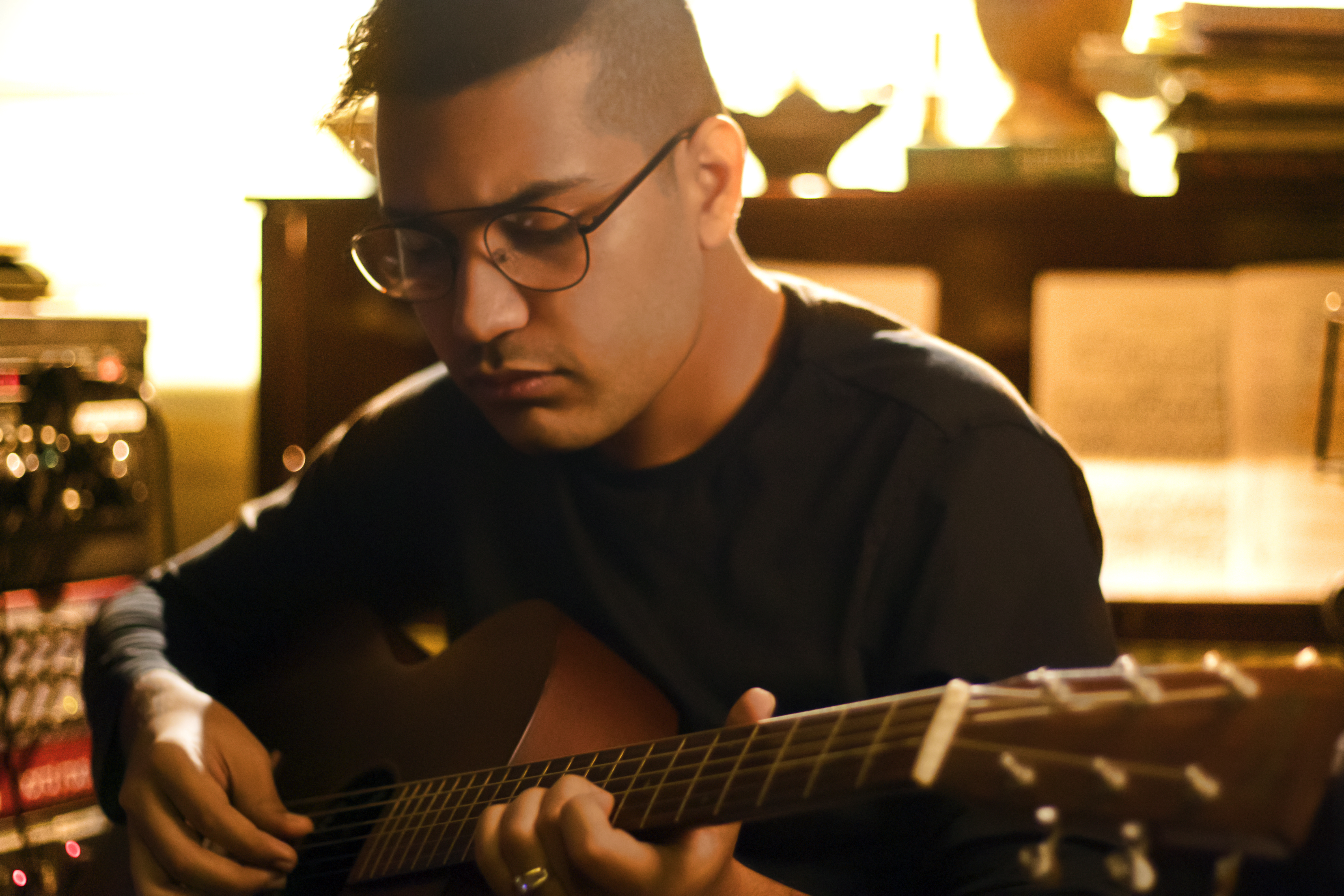 Playing Guitar